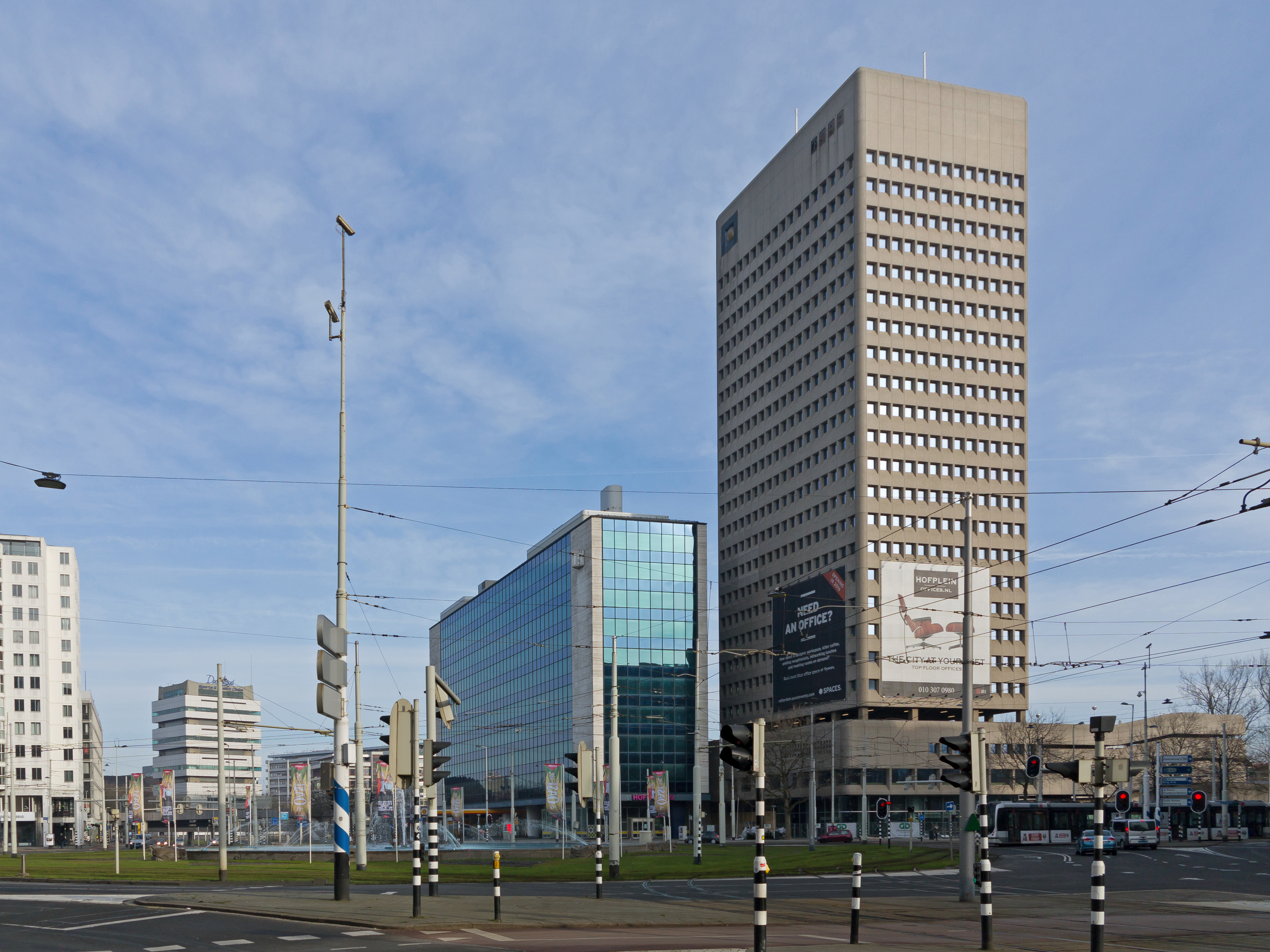 Rotterdam, Shell office building at the Hofplein